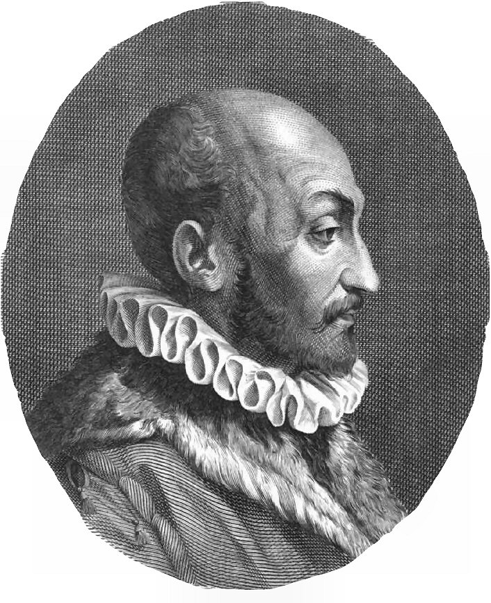 from here